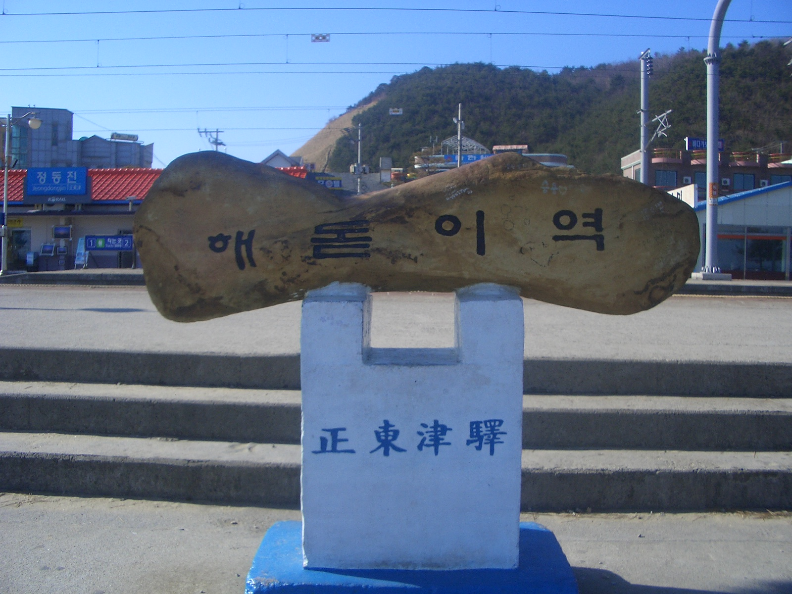 photo taken by 9old9